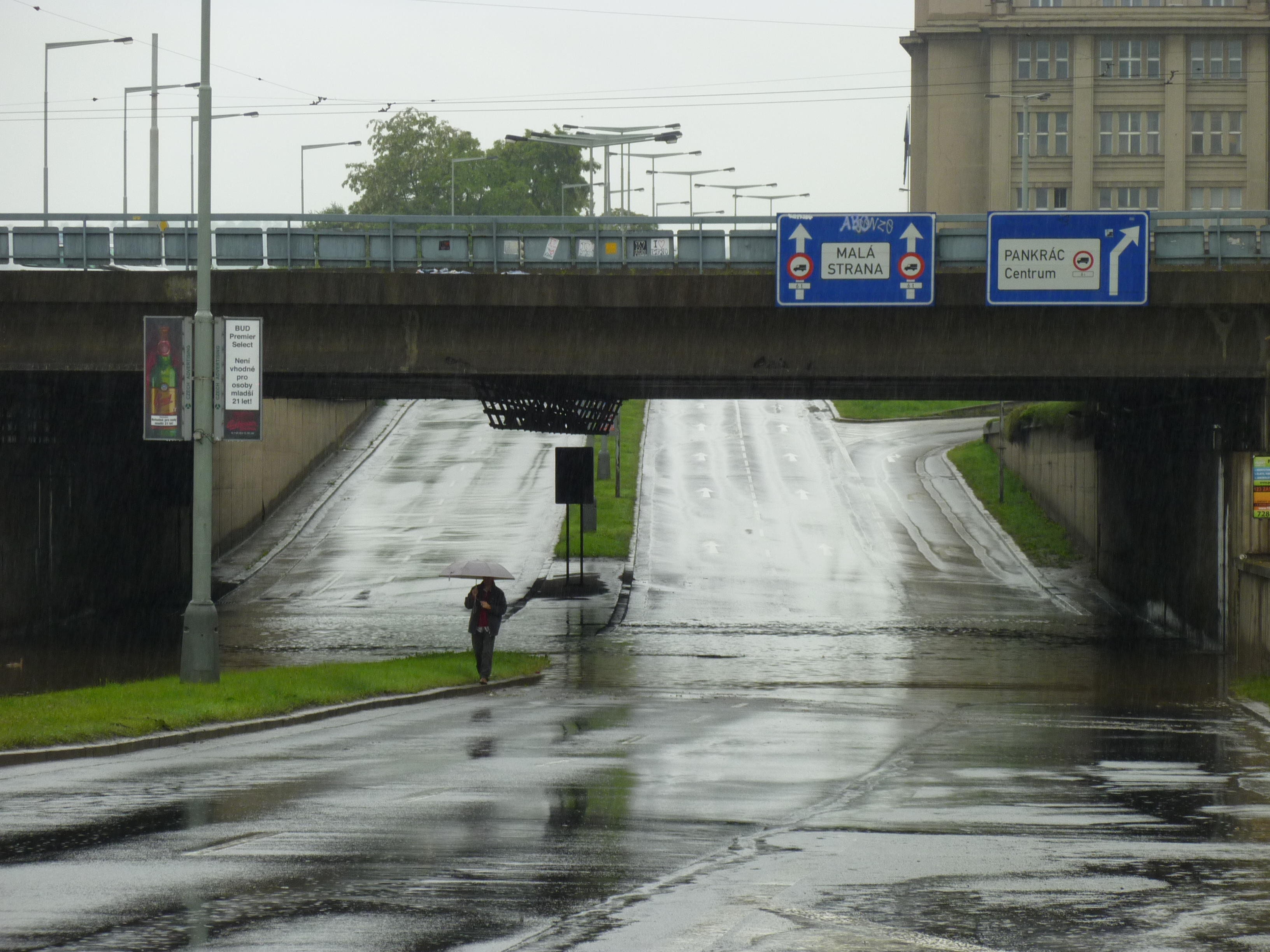 Organization of public transport during floods in June 2013, Prague, Czech Republic